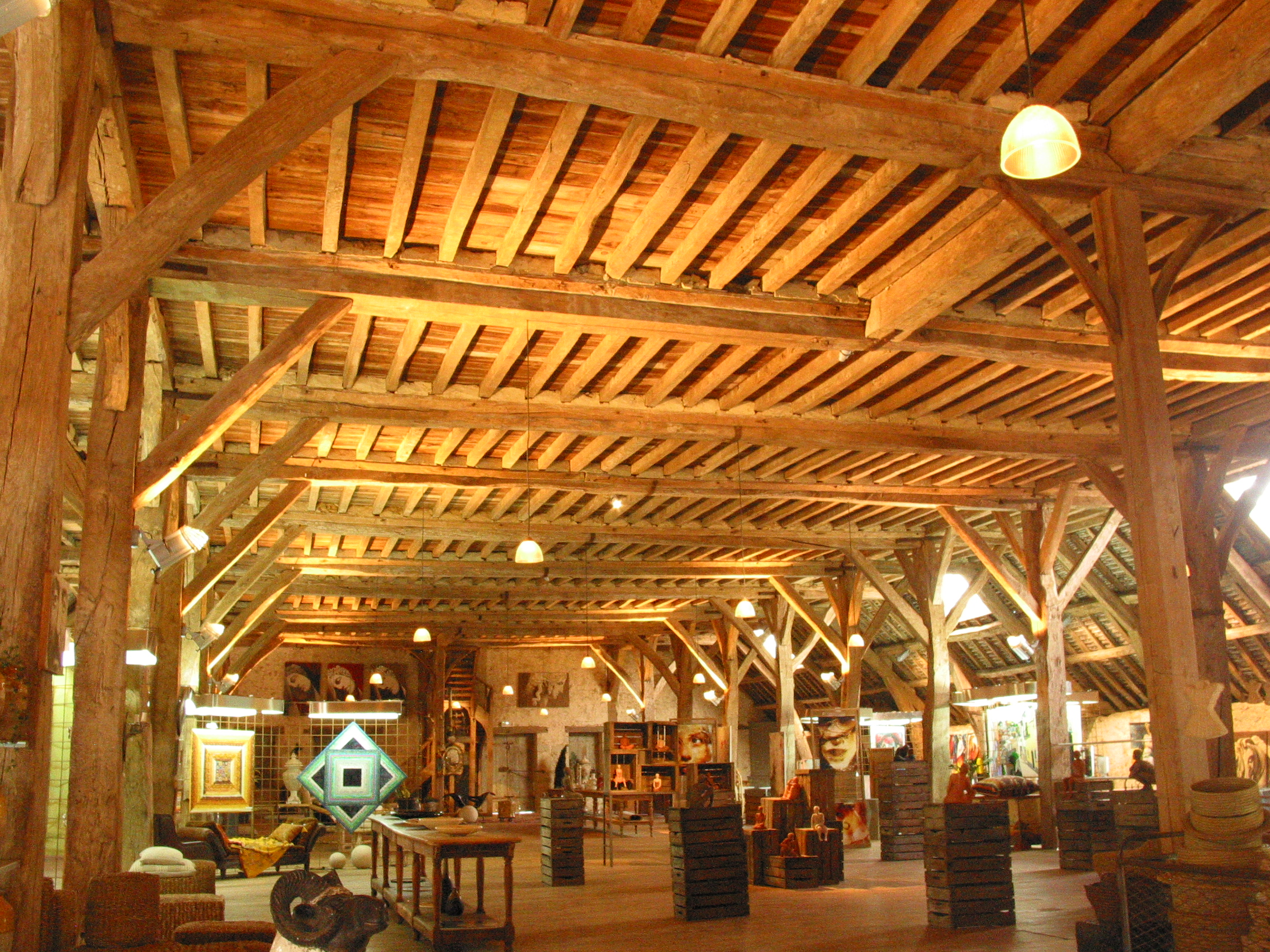 Mugron (Landes, France). Frame of the gallery of exhibition